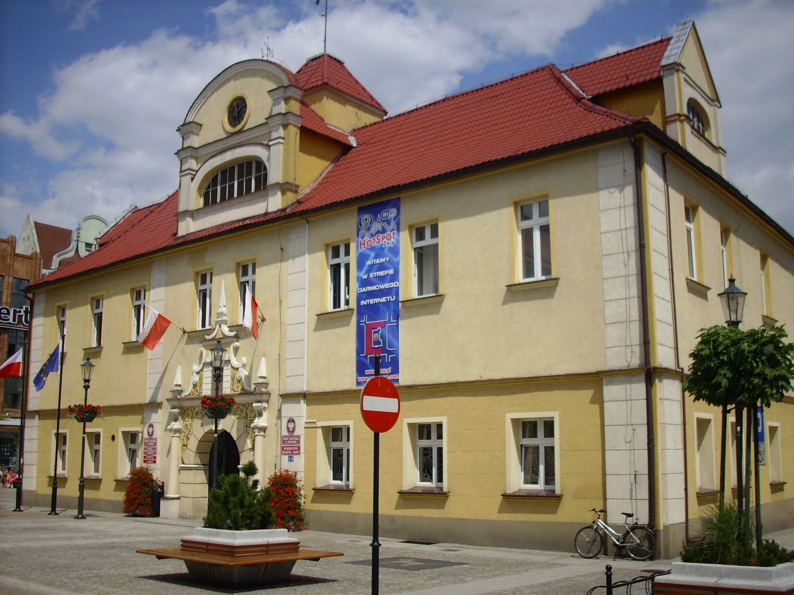 City Hall in Zary